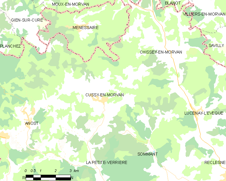 Map of French municipality